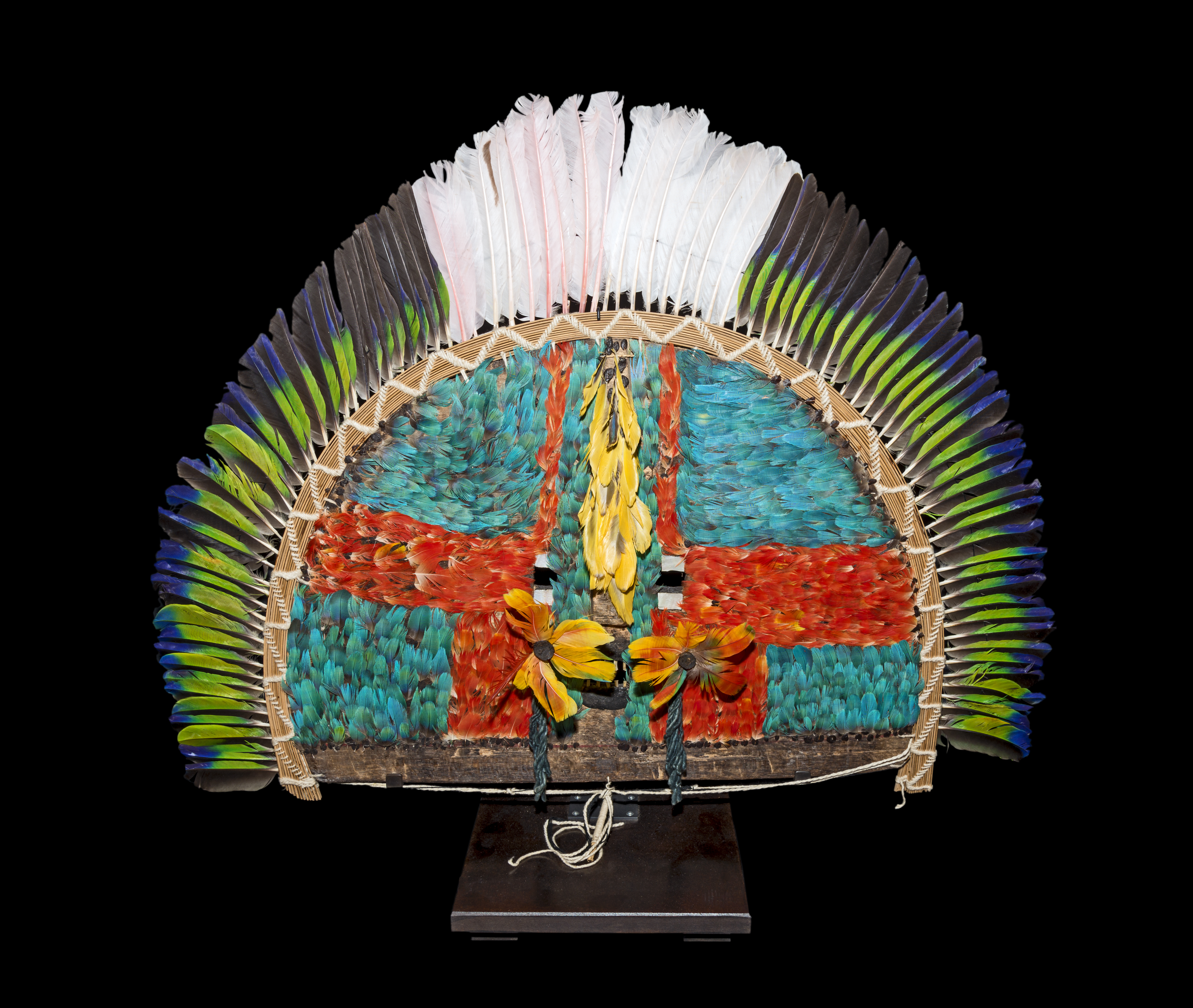 Tawa or ype Mask. Tawa ceremony is one of the most complex rituals. This is a staging of ancient battles with neighboring tribes. During the ceremony, the spirit of the enemy incarnate by the mask ype. This type of mask is made by men in secret in the men's house. The Tawa is celebrated at the beginning of the dry season in several distinct phases. The first step is to appoint two emcees that must descend from a parent who killed an enemy. The second phase is the production of wooden masks. Sculpture trays is to give them an anthropomorphic figure. The plate is covered with feathers macaw whose combination of colors blazoned the identity of the group of which the mind of the enemy killed. The masks are kept in the men's house to celebrate the third phase of the ritual that features the old tribal wars and ended with the victory of Api'awa on their enemies. Population : Apyawa / Tapirape - Brazil, Mato Grosso, Indigenous Land of Urubu Branco Materials : Macaw feathers, ipe wood (tabebuia sp.), nacre, wax, cotton yarn Size :43 x 81 x 7 cm